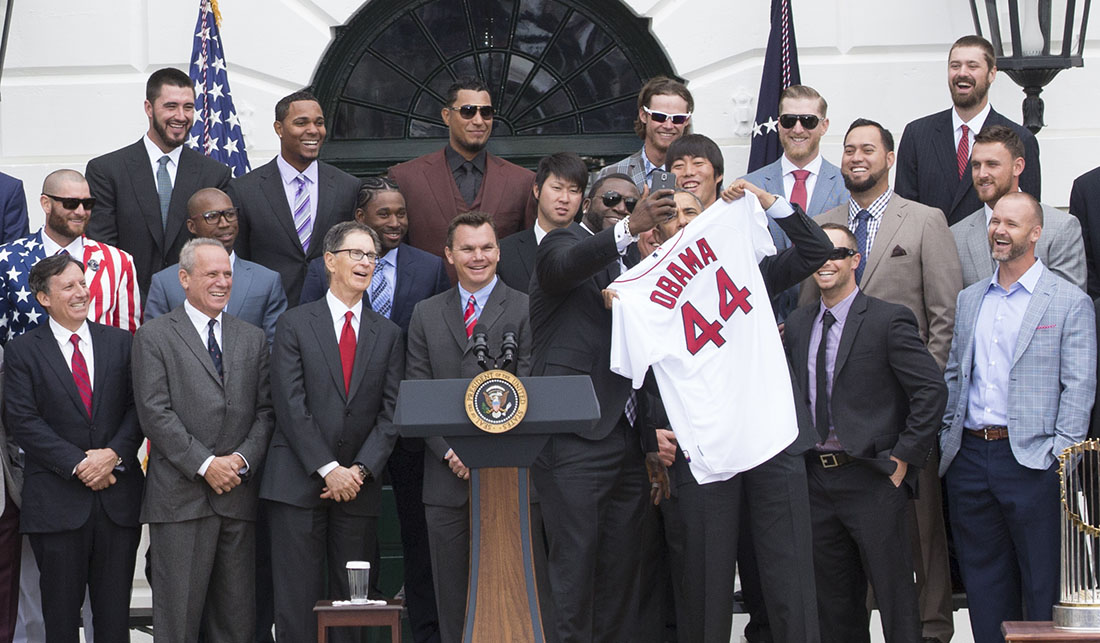 David Ortiz takes a selfie with President Barack Obama as the team presents a jersey during an event to welcome the Boston Red Sox to the White House to honor the team and their 2013 World Series Championship, on the South Lawn of the White House, April 1, 2014.